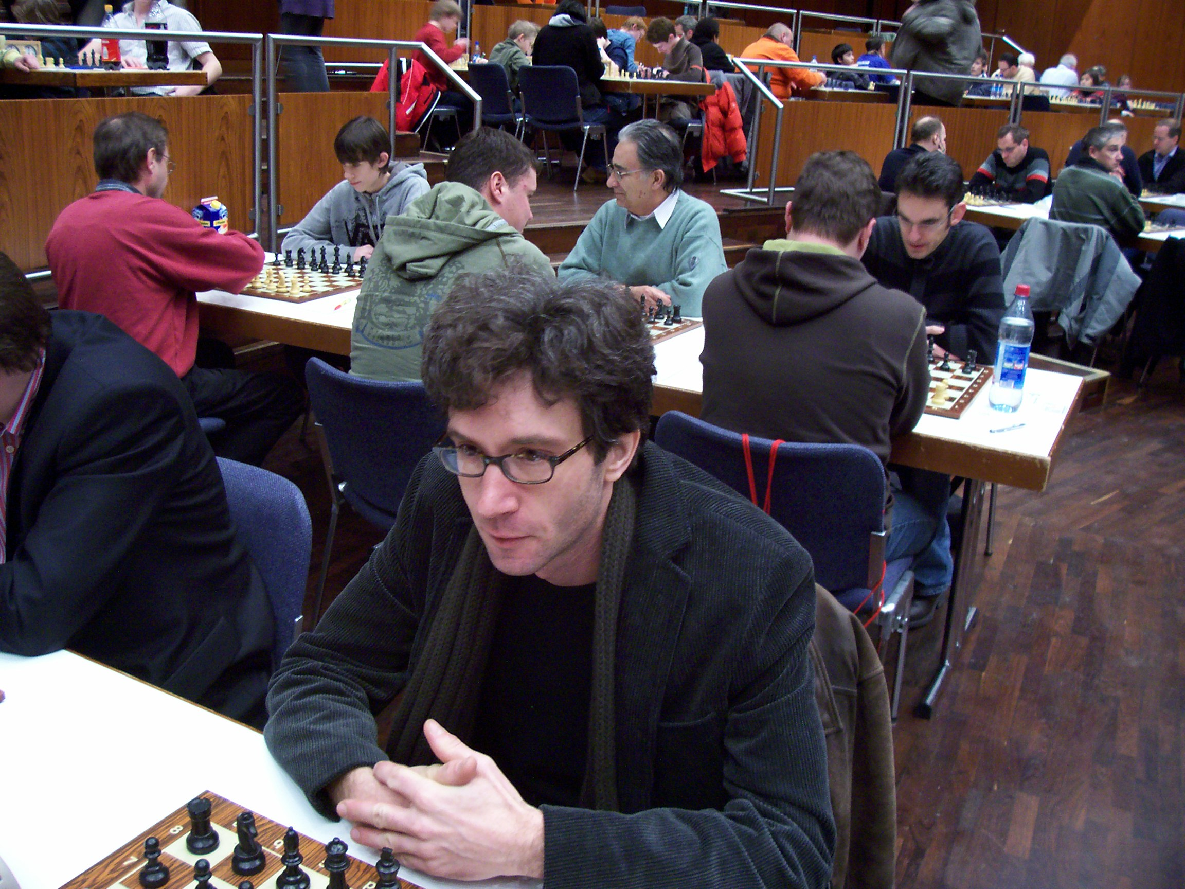 Frank Zeller at the "21. Staufer Open", start of round 2. Zeller is an International Master of chess.